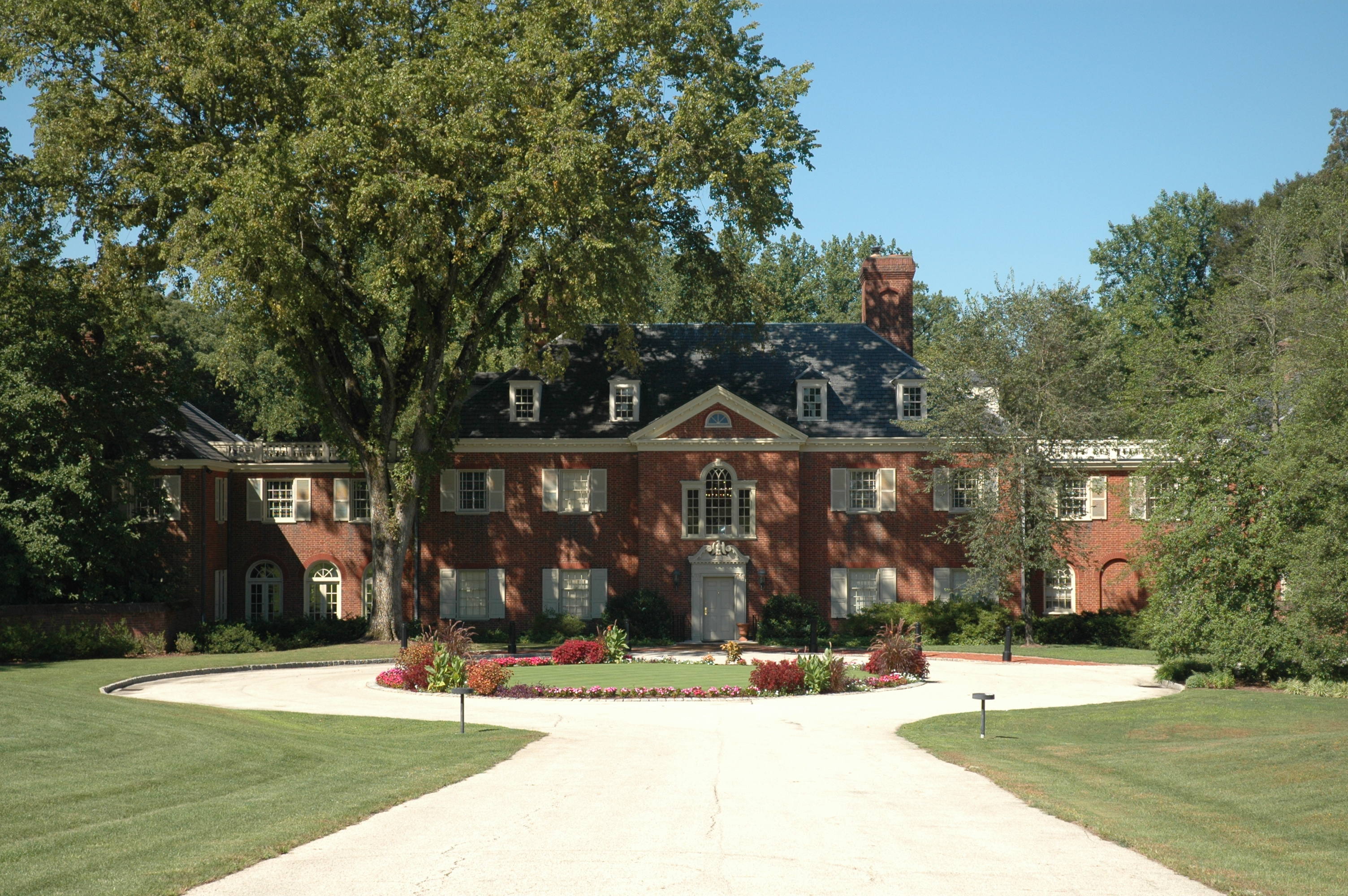 Brantwyn, home of Pierre DuPont located on the grounds of the DuPont country club in Wilmington, Delaware